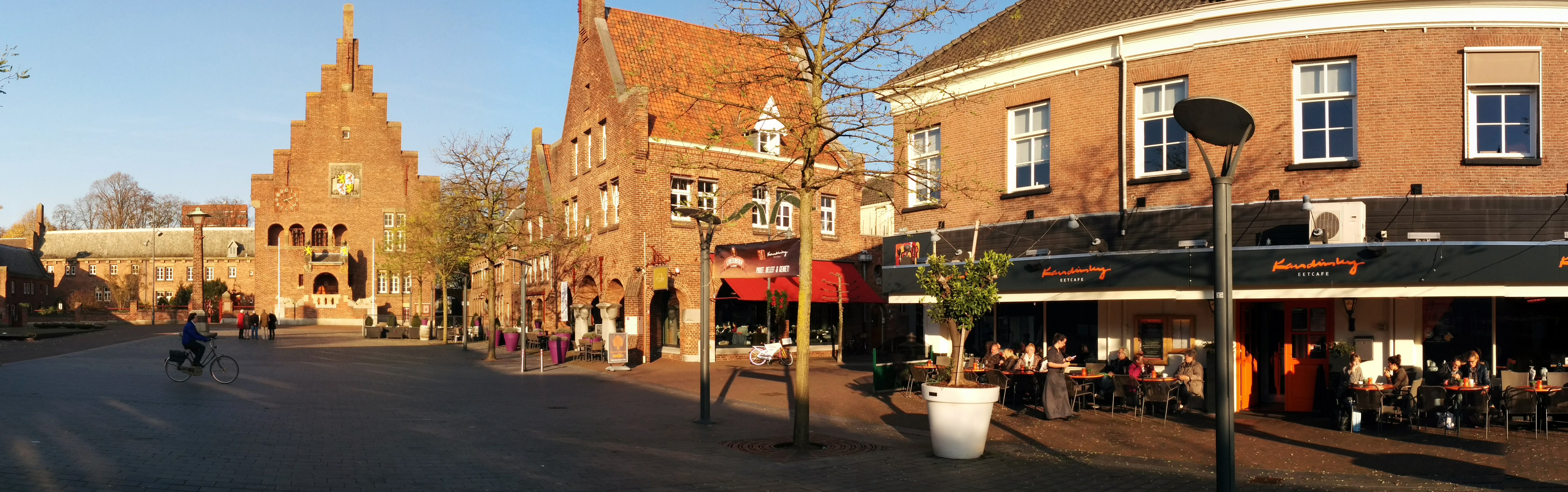 Waalwijk townhall and city Center